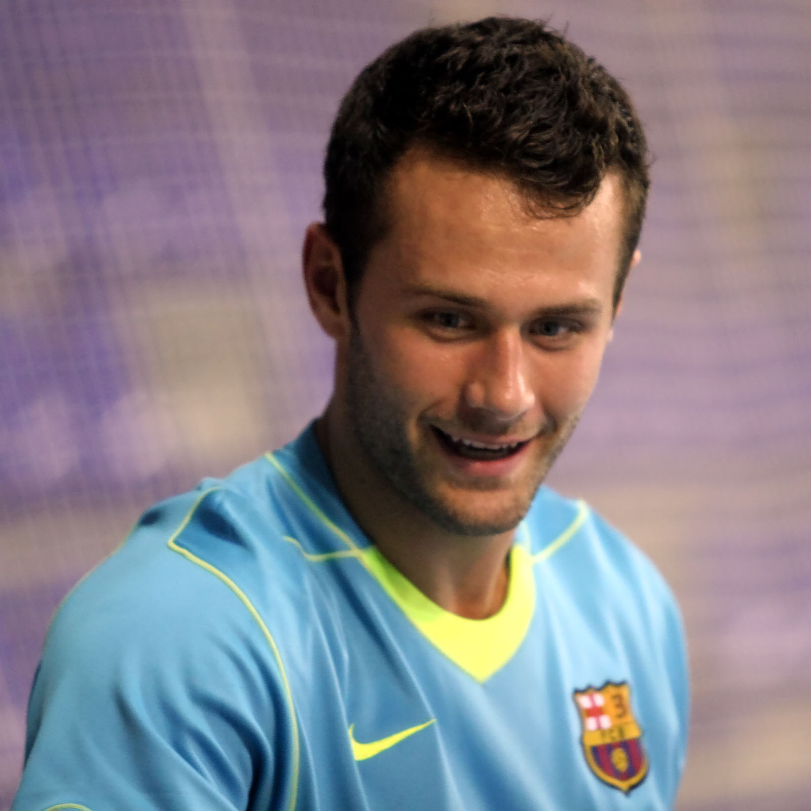 Jesper Nøddesbo, Danish handball player on October 12th, 2008 in Barcelona (Palau Blaugrana) prior the Champions League game FC Barcelona Borges - H.C. Metalurg Skopje